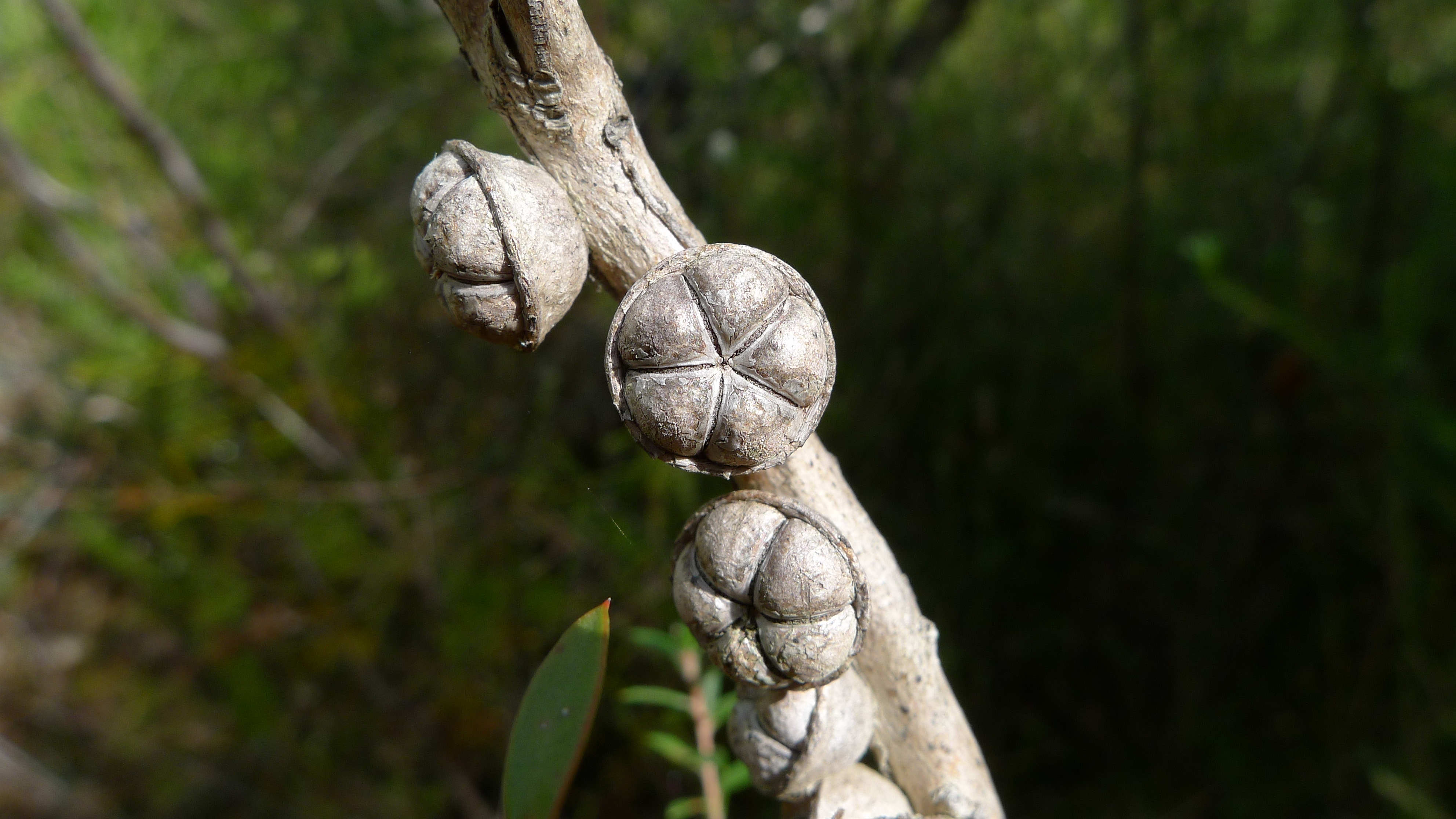 Tea-tree Leptospermum squarrosum. Royal National Park, NSW Australia, August 2011.